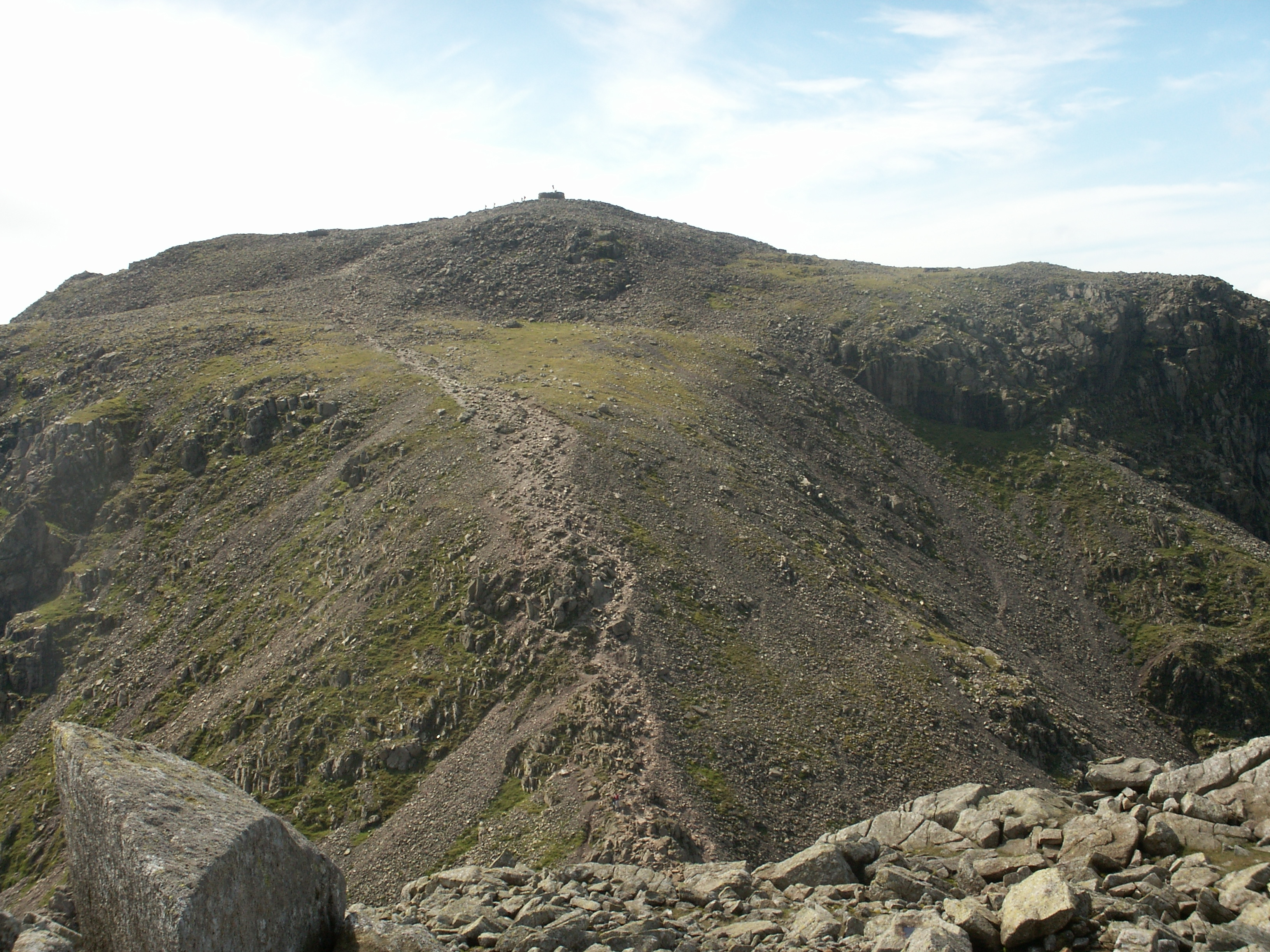 The summit of England's highest peak, Scafell Pike, seen from neighbouring Broad Crag. My own photo.